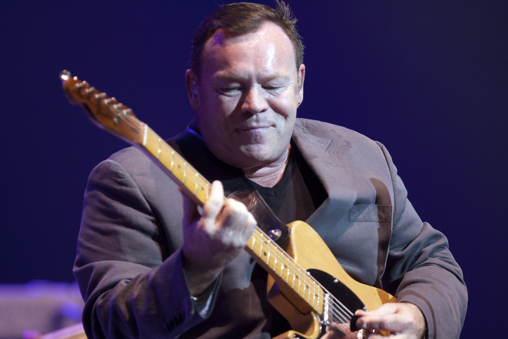 Ali Campbell's UB40 performing along with Billy Ocean and Big Mountain at the State Theatre in Sydney.